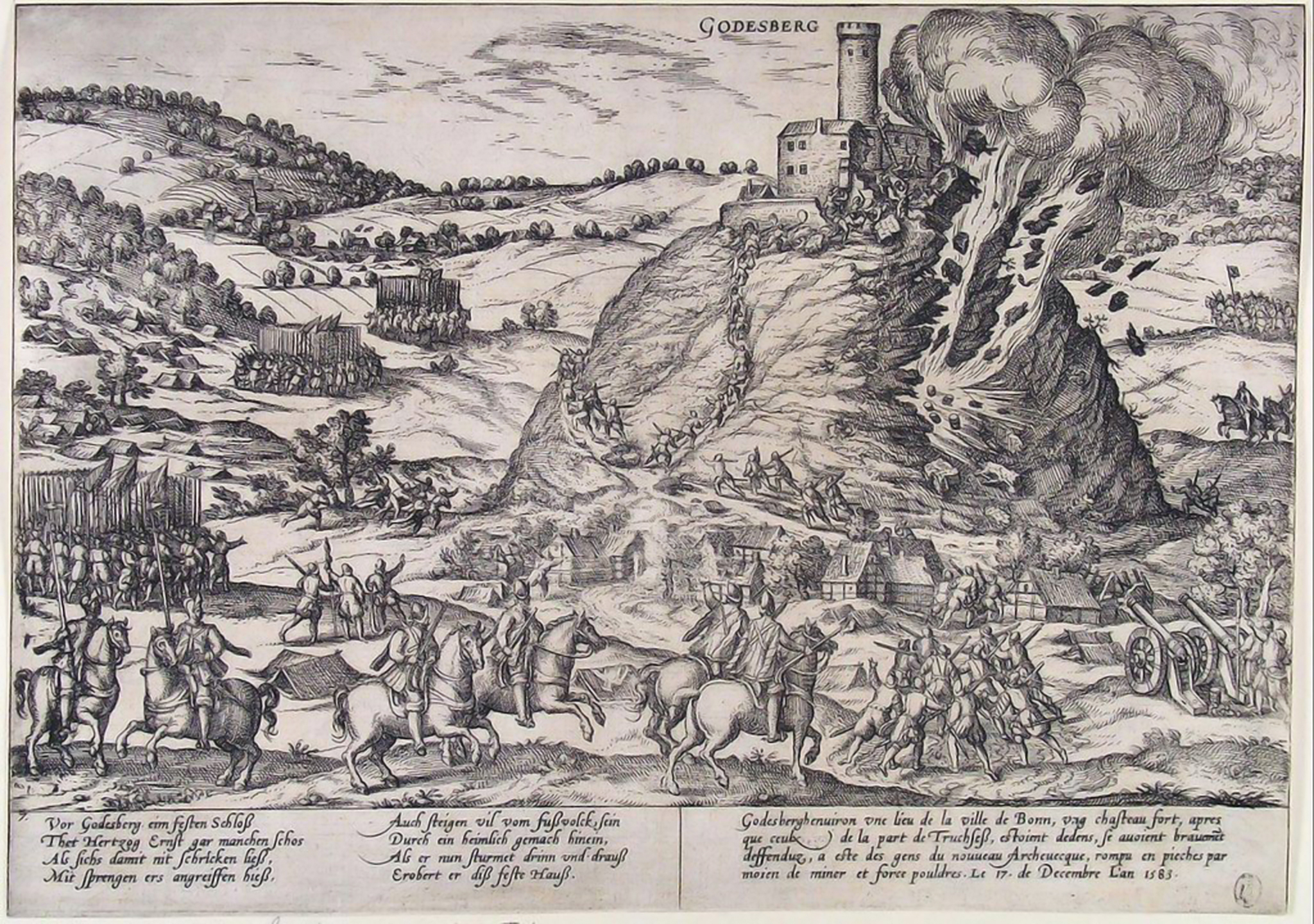 Capture of Godesberg in 1583. Etching. Rotterdam, Museum Boijmans Van Beuningen (inv.no. BdH 14487 (PK)).